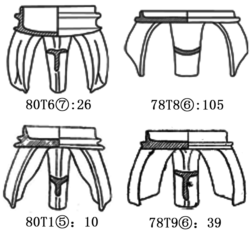 文言: Dings (Tripods) of Fanchengdui Culture